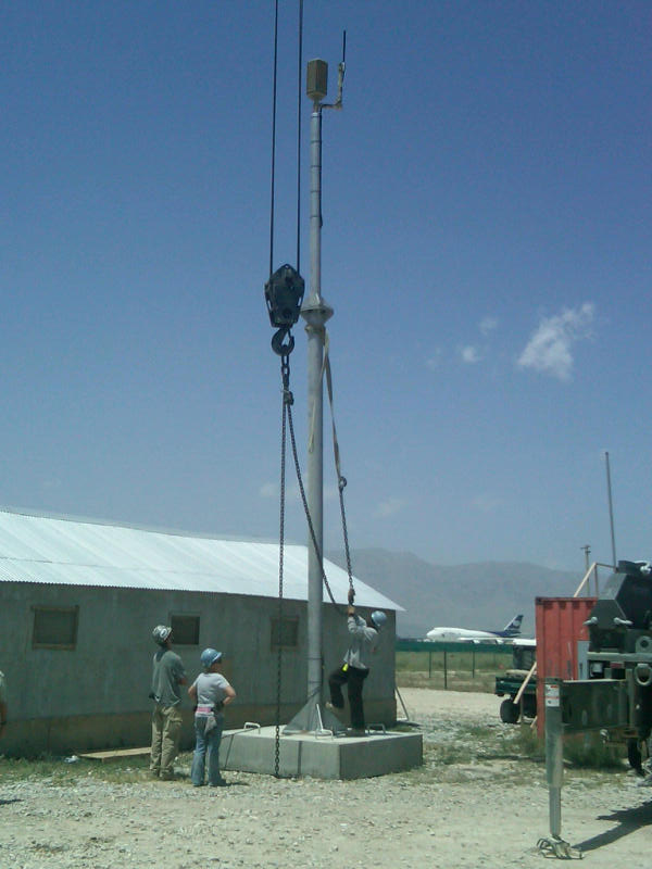 A HyperSpike MA-1 omni-directional acoustic hailing device on a concrete FOB in-theater.